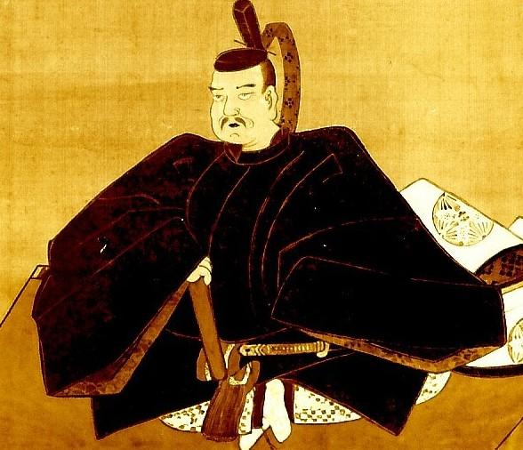 Taira no Masakado image of the tukudo Shinto shrine possession